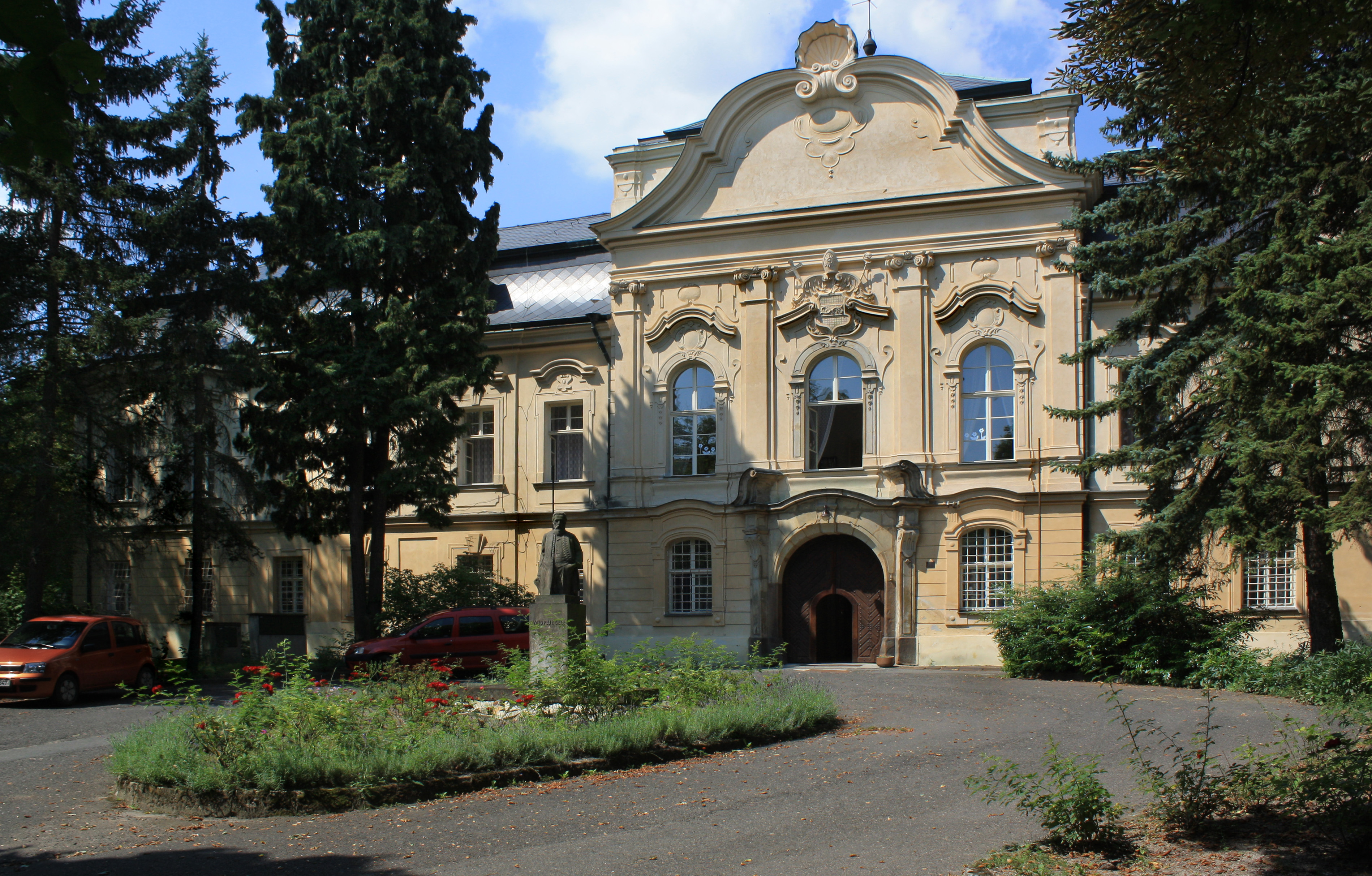 Castle in Vraný, Czech Republic